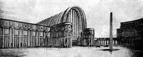 Kursky Terminal Draft, 1933 contest